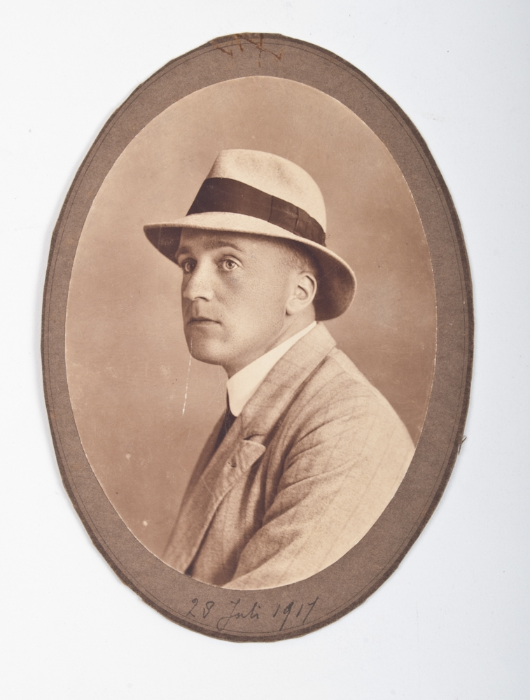 Jan Hendrik Frederik Grönloh (1882-1961), Dutch businessman and writer. Pseudonym: Nescio. Photograph made 28 July 1917